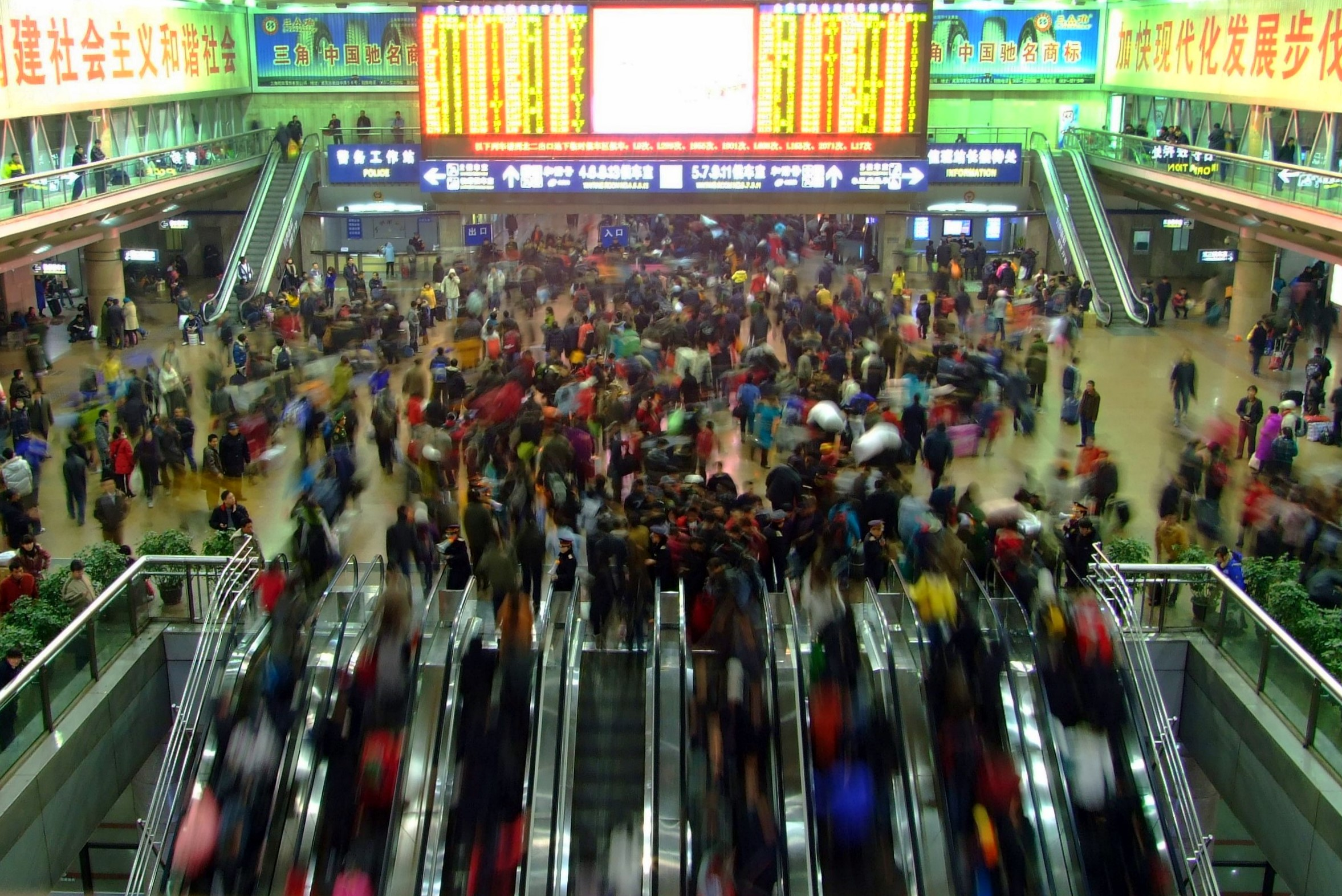 2009 Chunyun period,Beijing West Railway Station,China 中文（中国大陆）: 2009年春运时期的北京西客站候车大厅